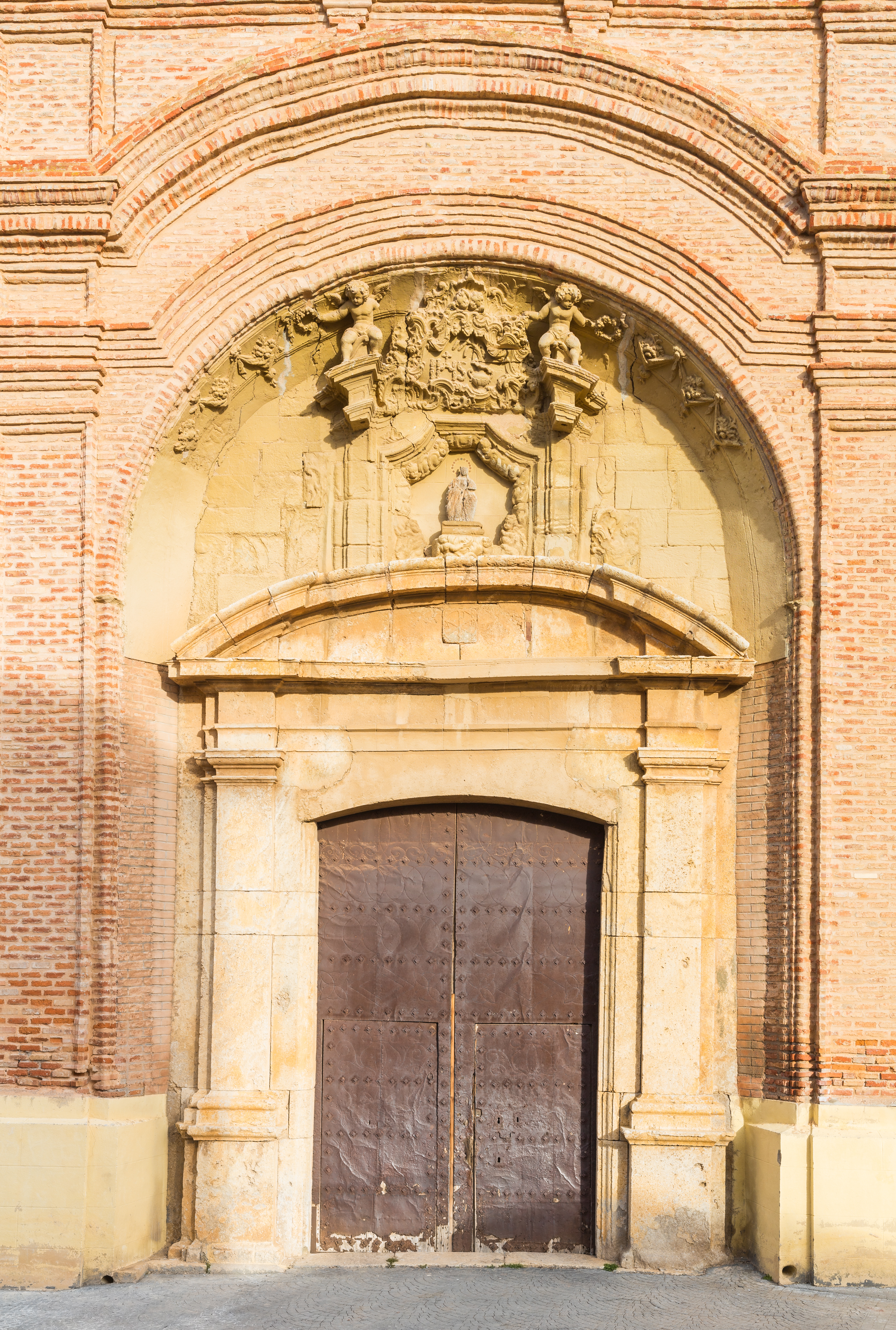 Church of the Assumption, Munébrega, Zaragoza, Spain